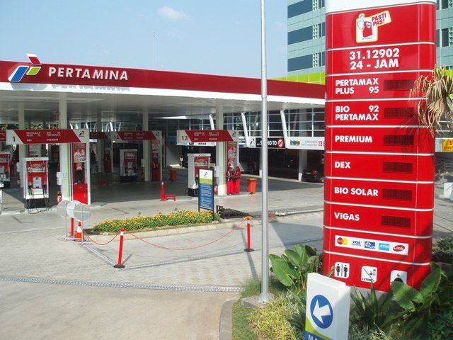 A Pertamina gas station in Indonesia